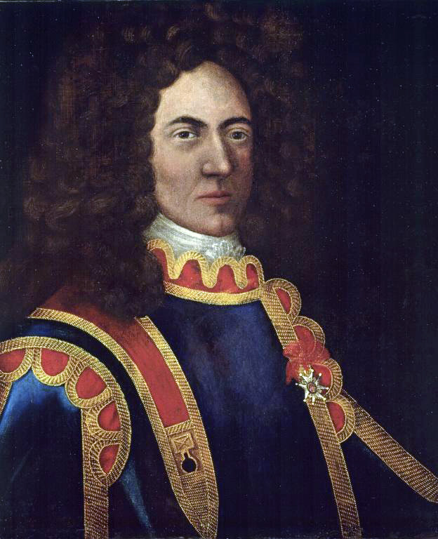 Painting, Portrait of Jean-Baptiste Hertel de Rouville (1668-1722), Anonymous, Oil on canvas, 65.5 x 54.5 cm